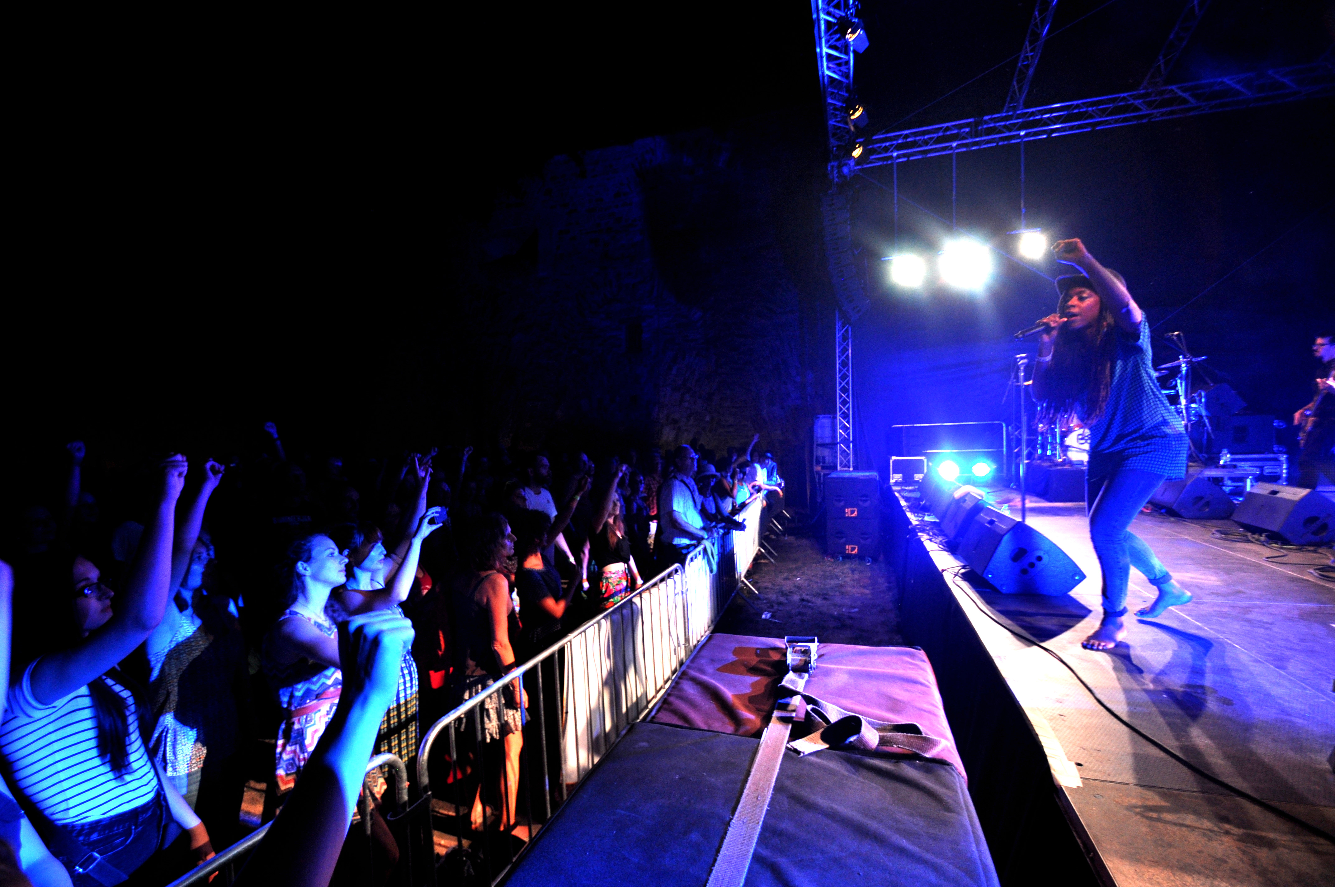 Akua Naru (USA/DEU), World Music Festival Horizonte 2015, Fortress Ehrenbreitstein, Koblenz, Rhineland-Palatinate, Germany Festivalsommer This photo was created with the support of donations to Wikimedia Deutschland in the context of the CPB project "Festival Summer".